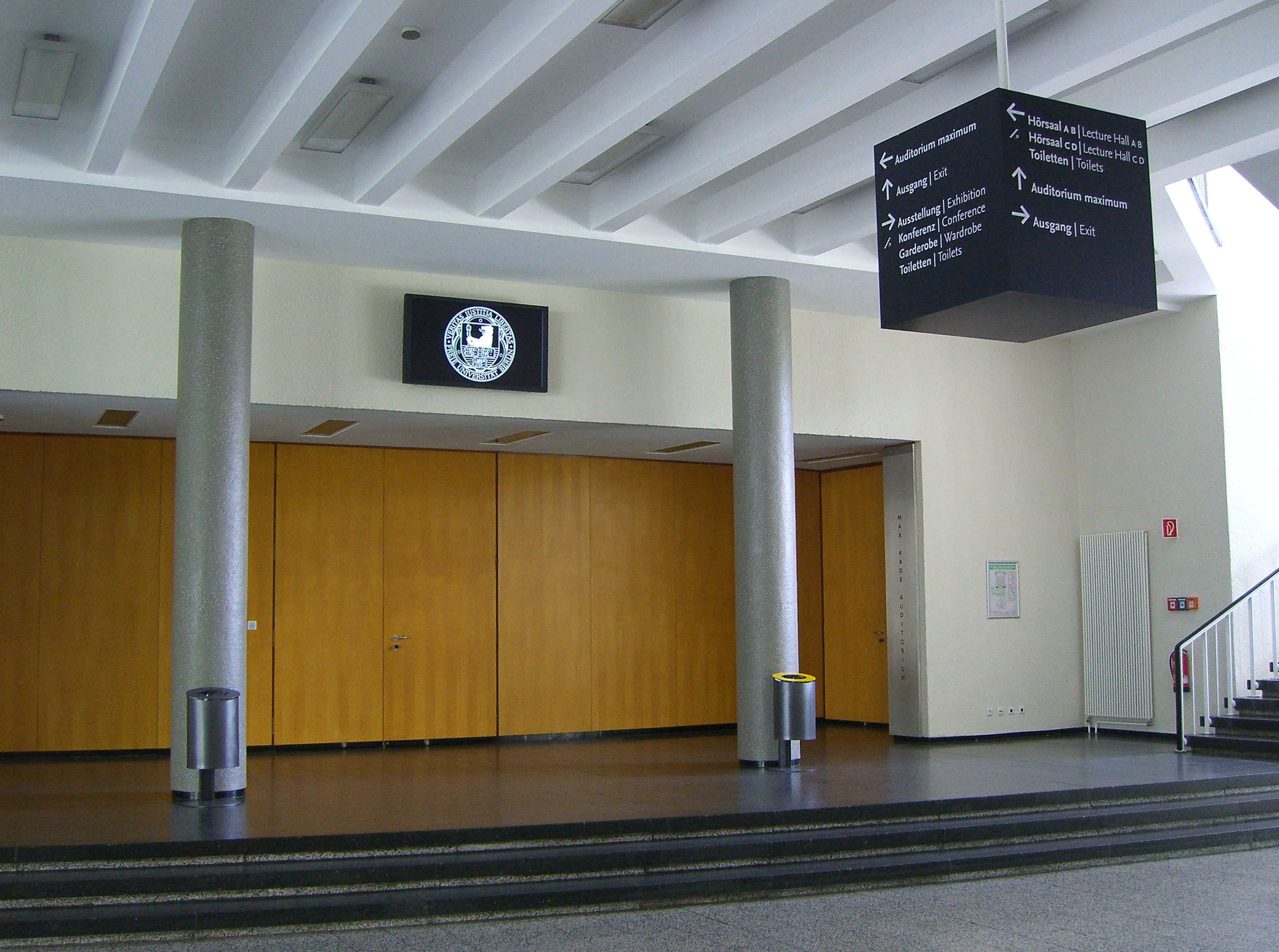 Entrance to the main auditorium of the Free University of Berlin in the "Henry-Ford-Building"